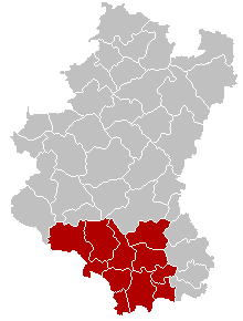 Map of Virton District in province of Luxembourg, Belgium.